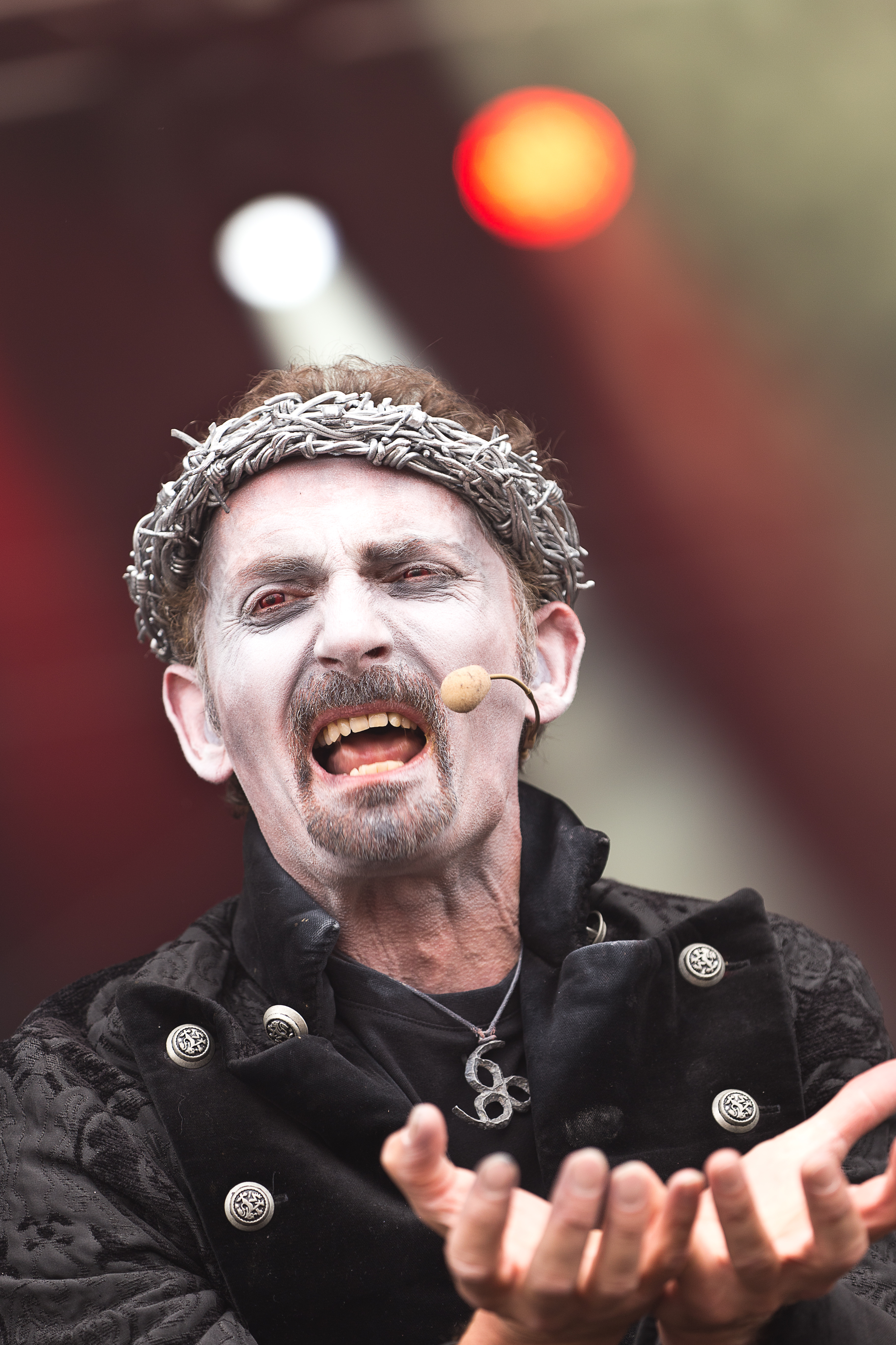 The British heavy metal band Hell at the Rockharz Open Air 2015 in Ballenstedt/Germany.